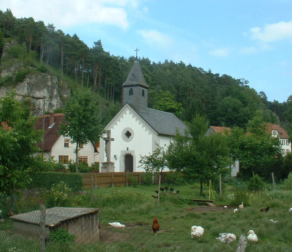 chapel of the village Treunitz near Hollfeld / Bamberg (Franconia)